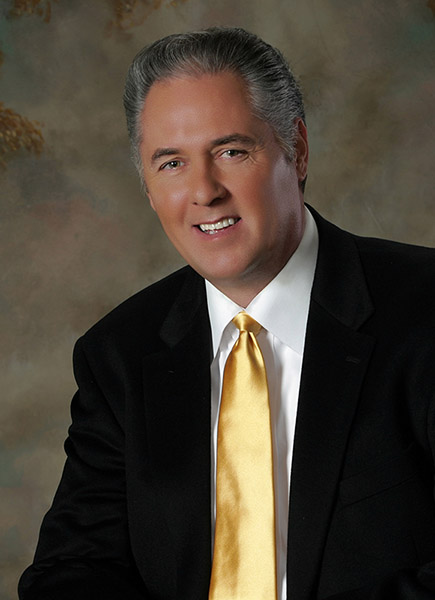 Carroll Roberson - Portrait